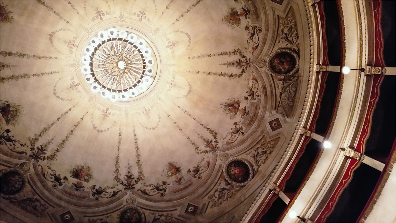 Central chandelier and ceiling of the theater